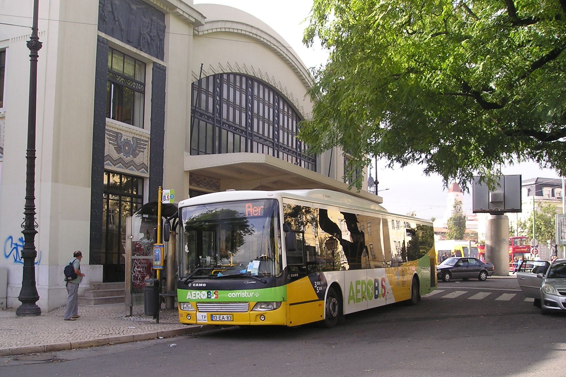 Carristur the tourist operation of Carris, Lisbon, Portugal. Aerobus at the Cais do Sodre interchange, October 2014.